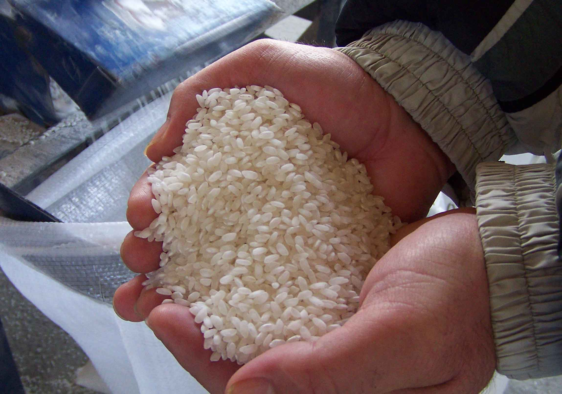 White rice seeds